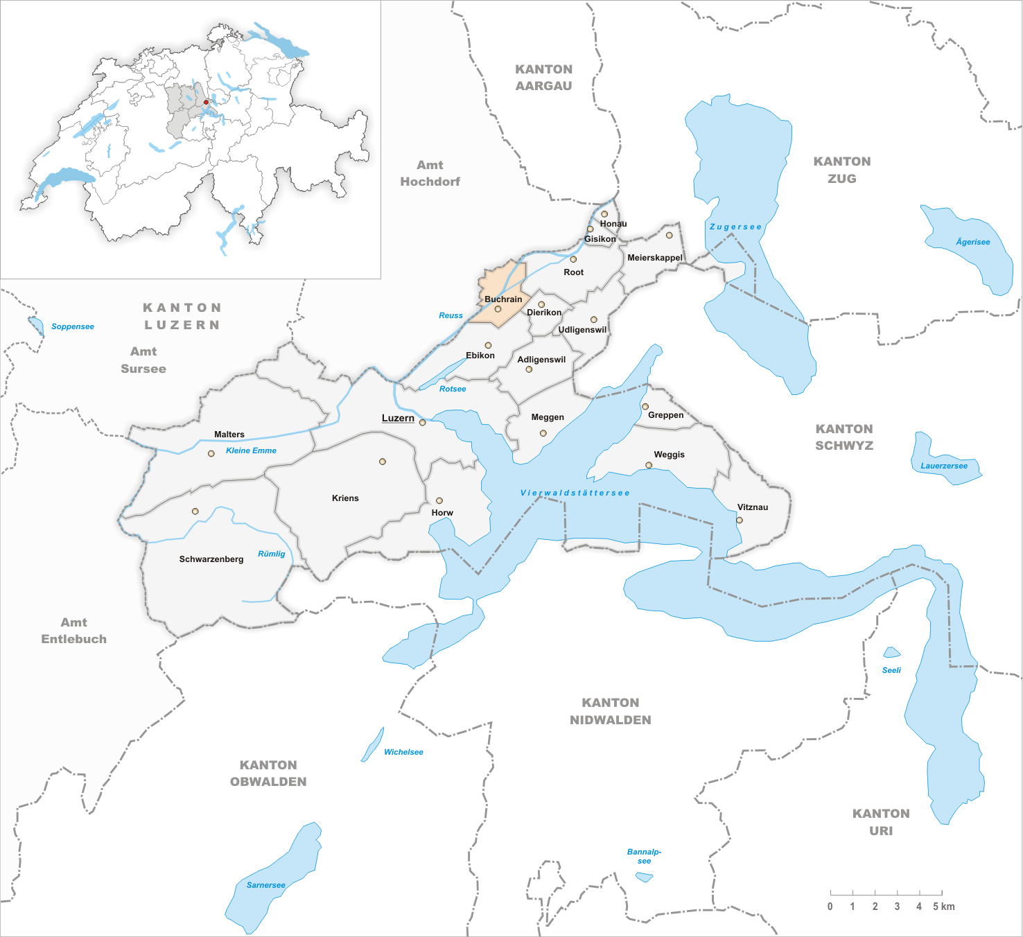 Municipality Buchrain